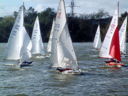 Illusion Mini-Keelboats at Aldenham SC